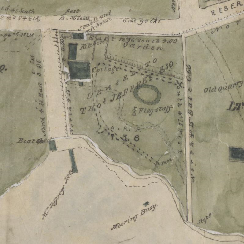 1840s map of Kirribilli